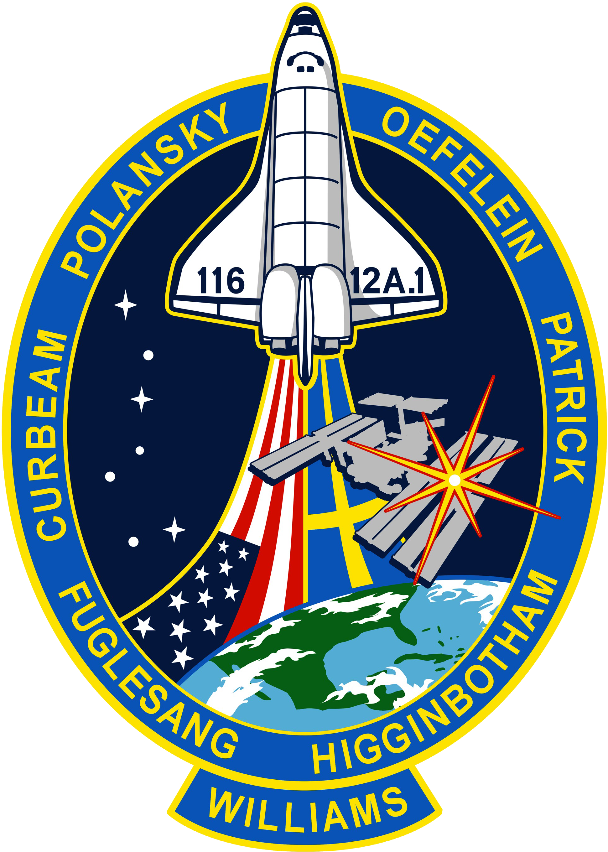 The STS-116 patch design signifies the continuing assembly of the International Space Station (ISS). The primary mission objective is to deliver and install the P5 truss element. The P5 installation will be conducted during the first of three planned spacewalks, and will involve use of both the shuttle and station robotic arms. The remainder of the mission will include a major reconfiguration and activation of the ISS electrical and thermal control systems, as well as delivery of Zvezda Service Module debris panels, which will increase ISS protection from potential impacts of micro-meteorites and orbital debris. In addition, a single expedition crewmember will launch on STS-116 to remain onboard the station, replacing an expedition crewmember that will fly home with the shuttle crew. The crew patch depicts the space shuttle rising above the Earth and ISS. The United States and Swedish flags trail the orbiter, depicting the international composition of the STS-116 crew. The seven stars of the constellation Ursa Major are used to provide direction to the North Star, which is superimposed over the installation location of the P5 truss on ISS. The NASA insignia design for shuttle space flights is reserved for use by the astronauts and other official use as the NASA Administrator may authorize. Public availability has been approved only in the form of illustrations by the various news media. When and if there is any change in this policy, which is not anticipated, such will be publicly announced.